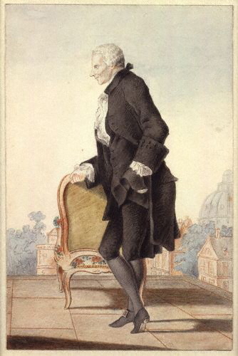 "Laurence Sterne," watercolour, painted by the French painter Louis Carrogis Carmontelle. 10 3/8 in. x 6 7/8 in. Courtesy of the National Portrait Gallery, London.